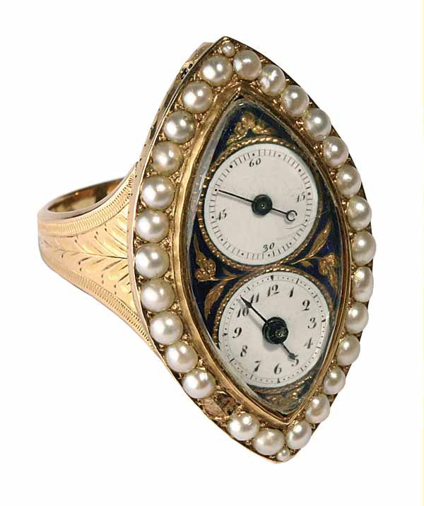 Fingerring mit Uhr, Genf, um 1800 (Deutsches Uhrenmuseum, Inv. K-1369)